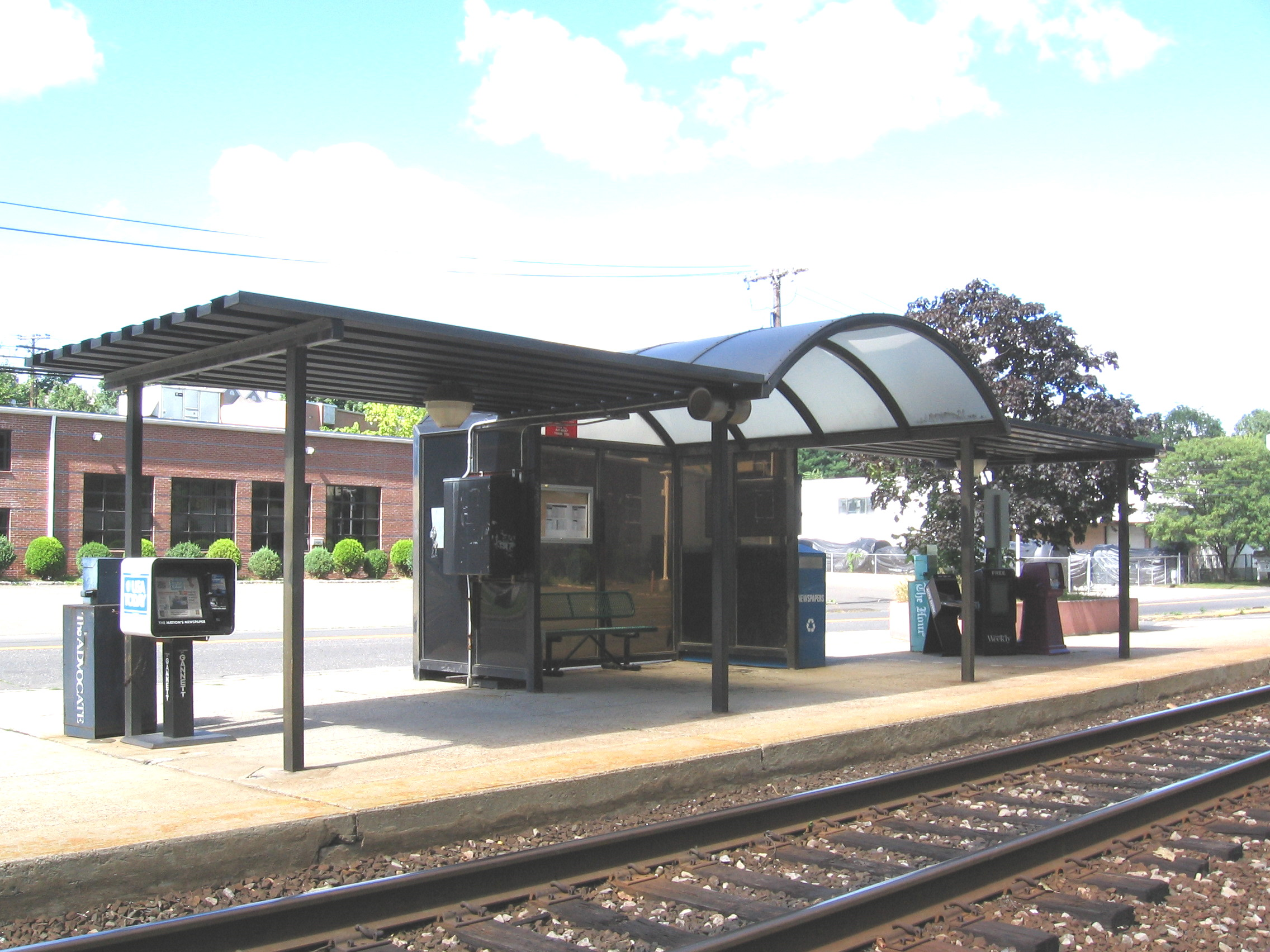 Trackside view of Merritt 7 on Glover Avenue in Norwalk